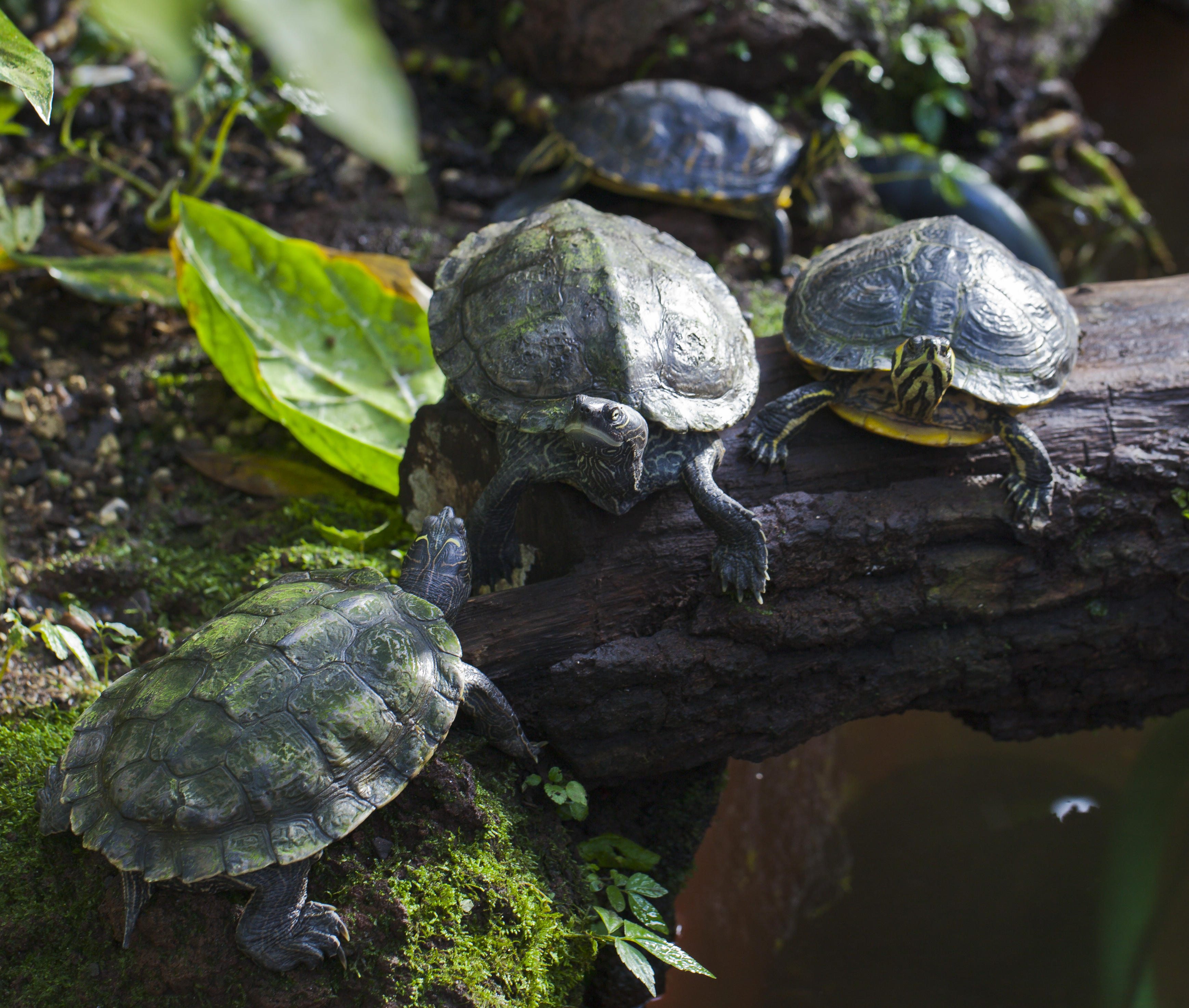 Red-eared slider (Trachemys scripta elegans), Munich Botanic Garden, Germany